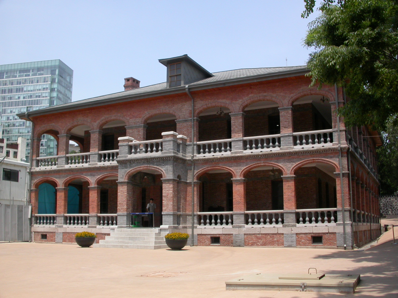 Jungmyeongjeon